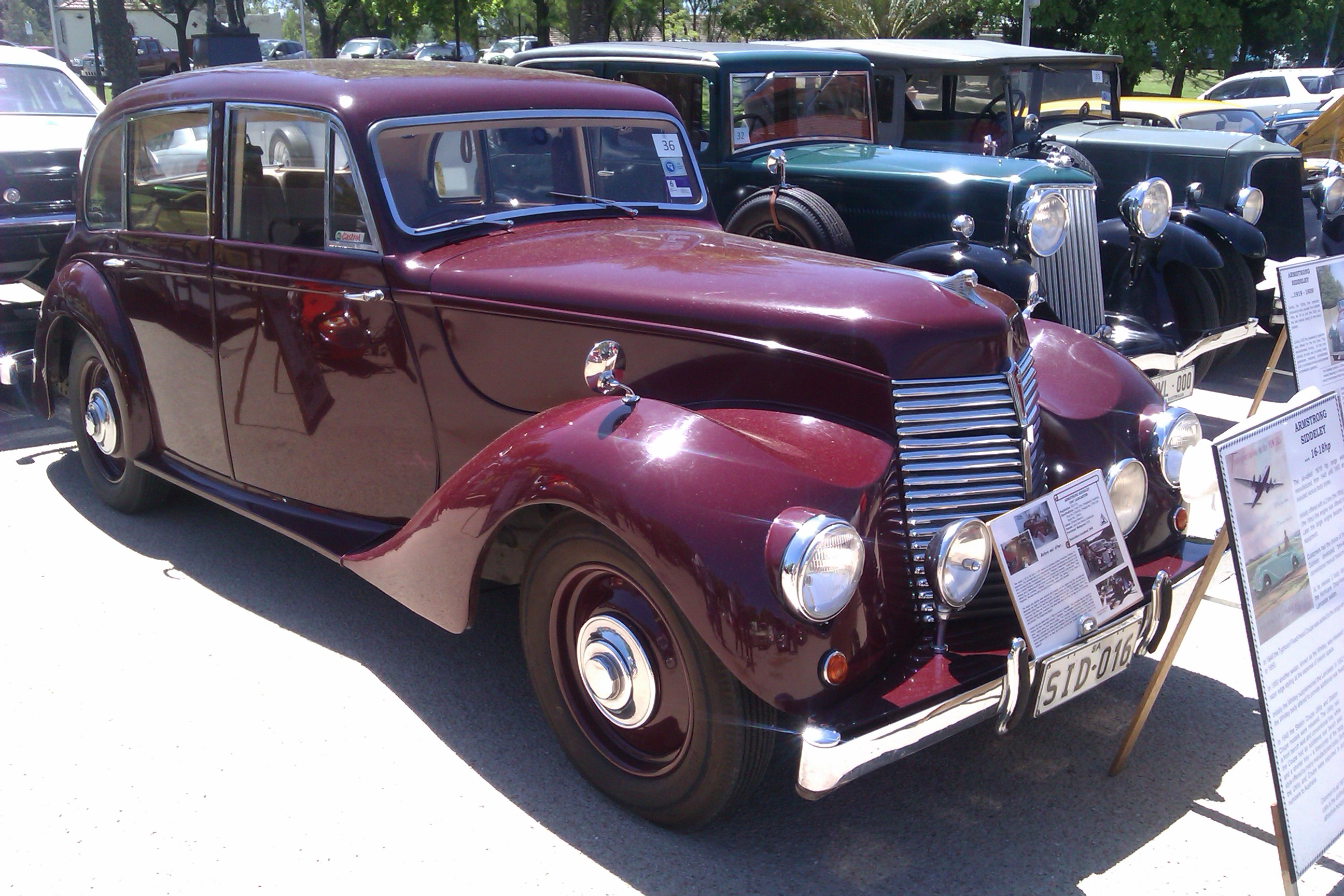 1947 Armstrong Siddeley Lancaster 16hp